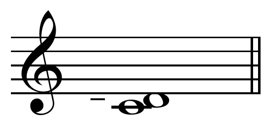 Pythagorean minor tone on C = D- (Ben Johnston's notation). 10:9 = 182.40 cents. Limit: 5-limit.